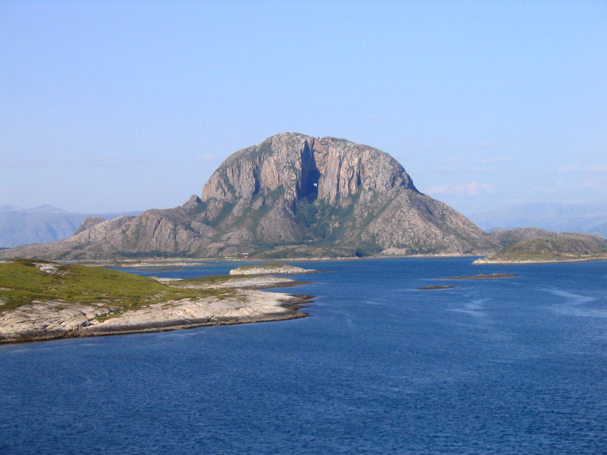 Torghatten